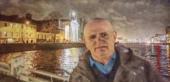 Depicted person: Ricky Dineen